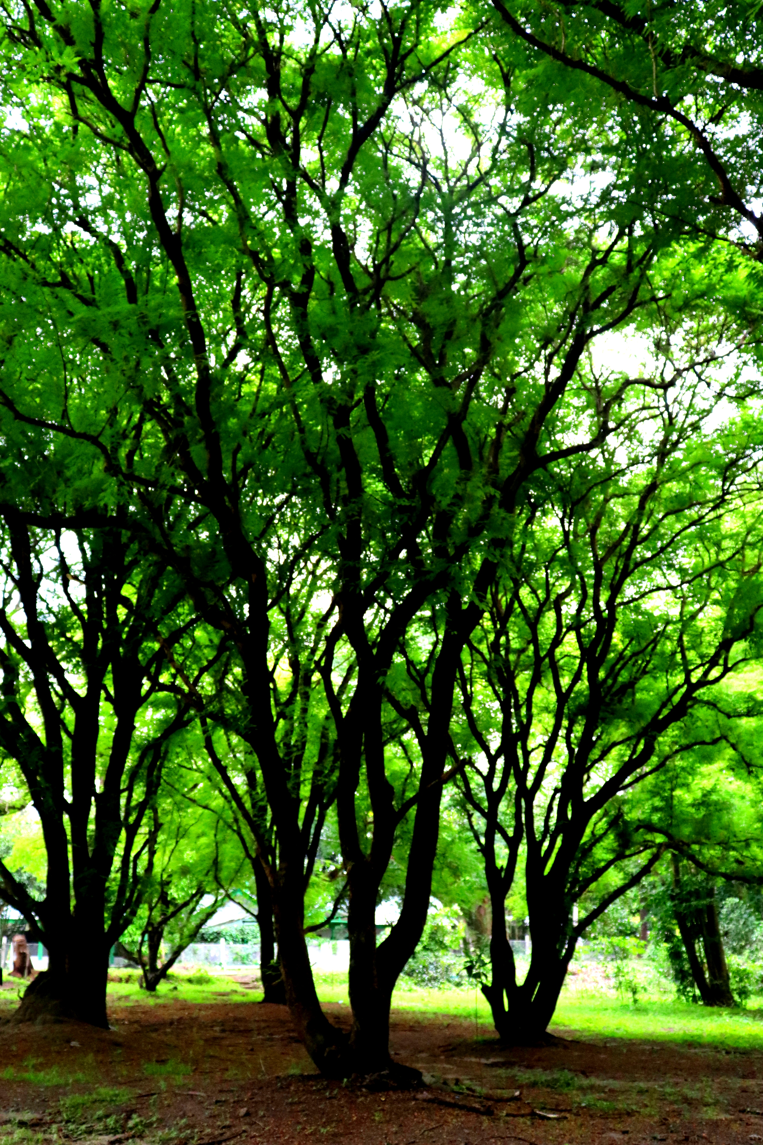 Tamarind Trees